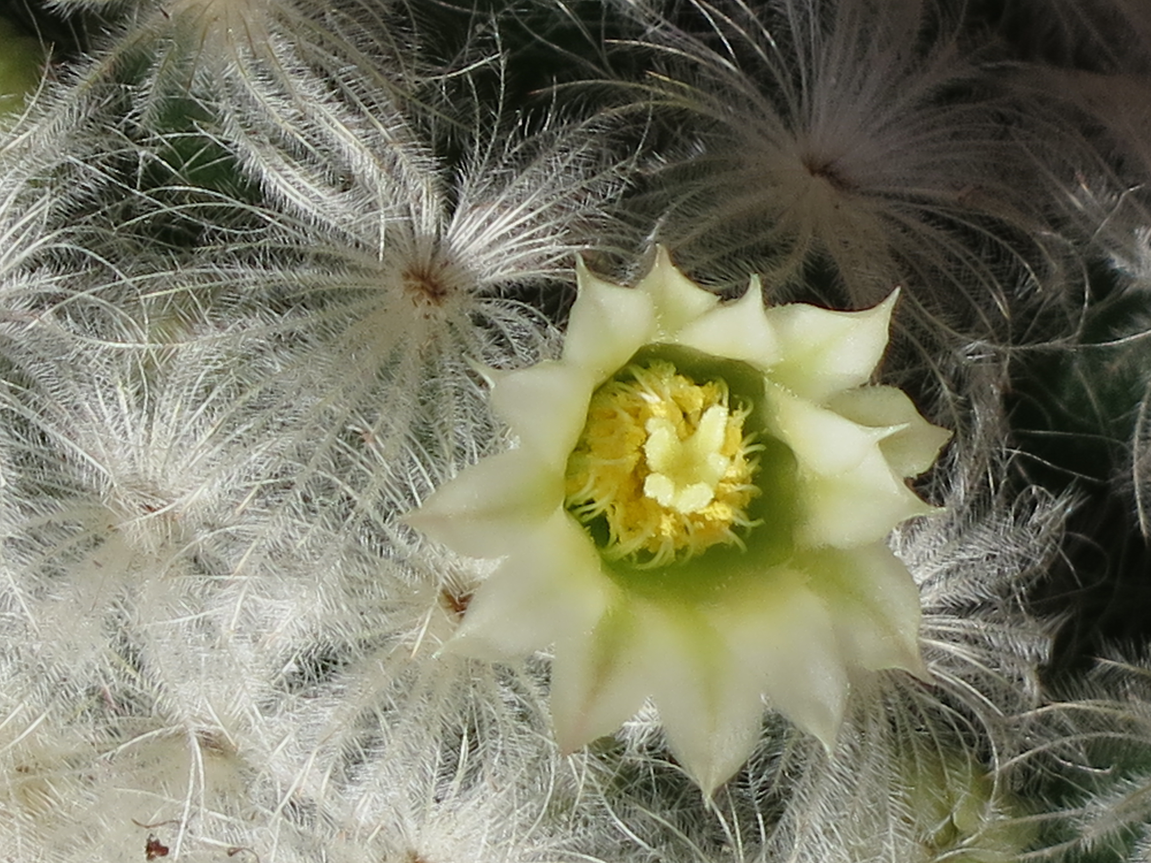 Flower of mammillaria plumosa